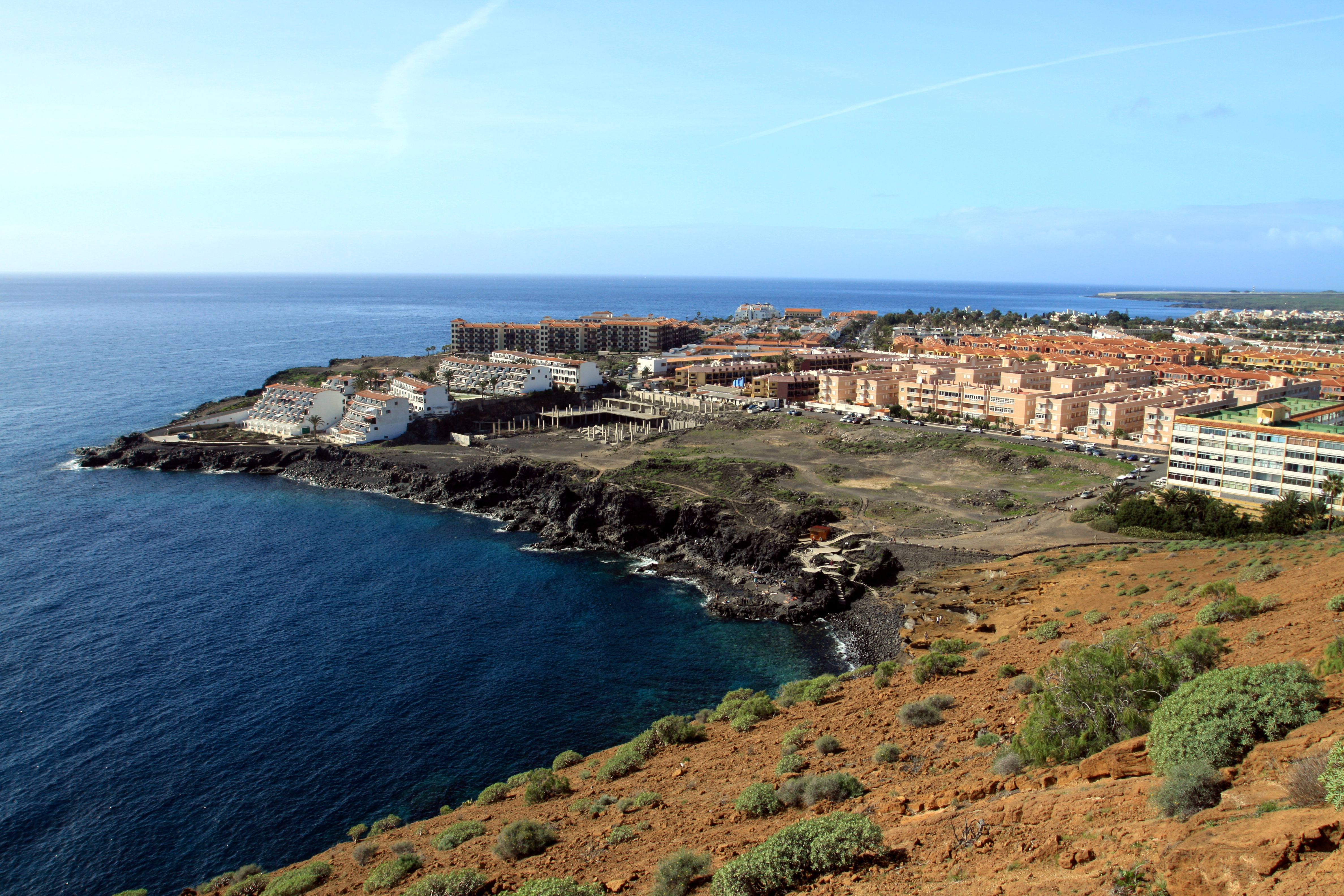 Tourist resort Costa del Silencio, part of Arona in Tenerife, Canary Islands, Spain. Photographed from scoria cone Montaña Amarilla.